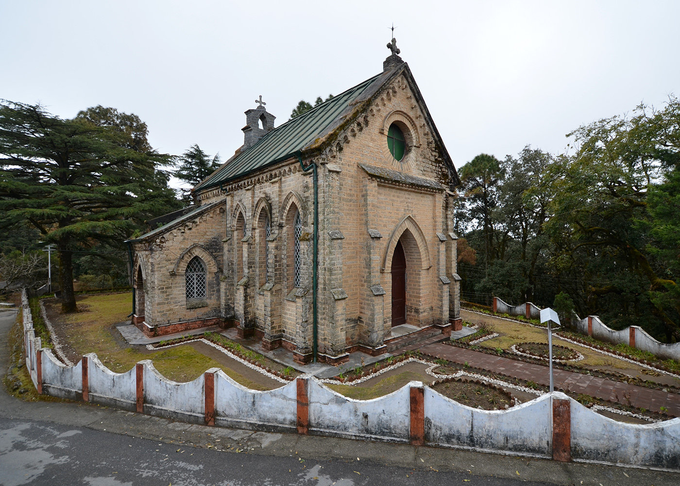 St Mary's Church in Lansdowne